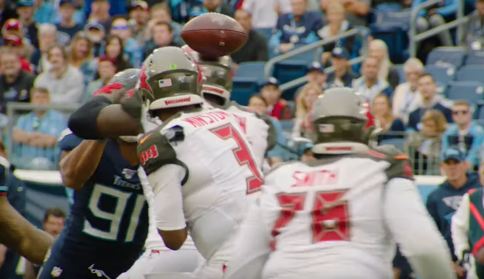 Jameis Winston 2019. Image from video Titans Mic'd Up vs. Bucs (Week 8) | Sounds of the Gamee, ~ 03:17